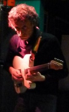 Stuart Hall playing guitar in 2011